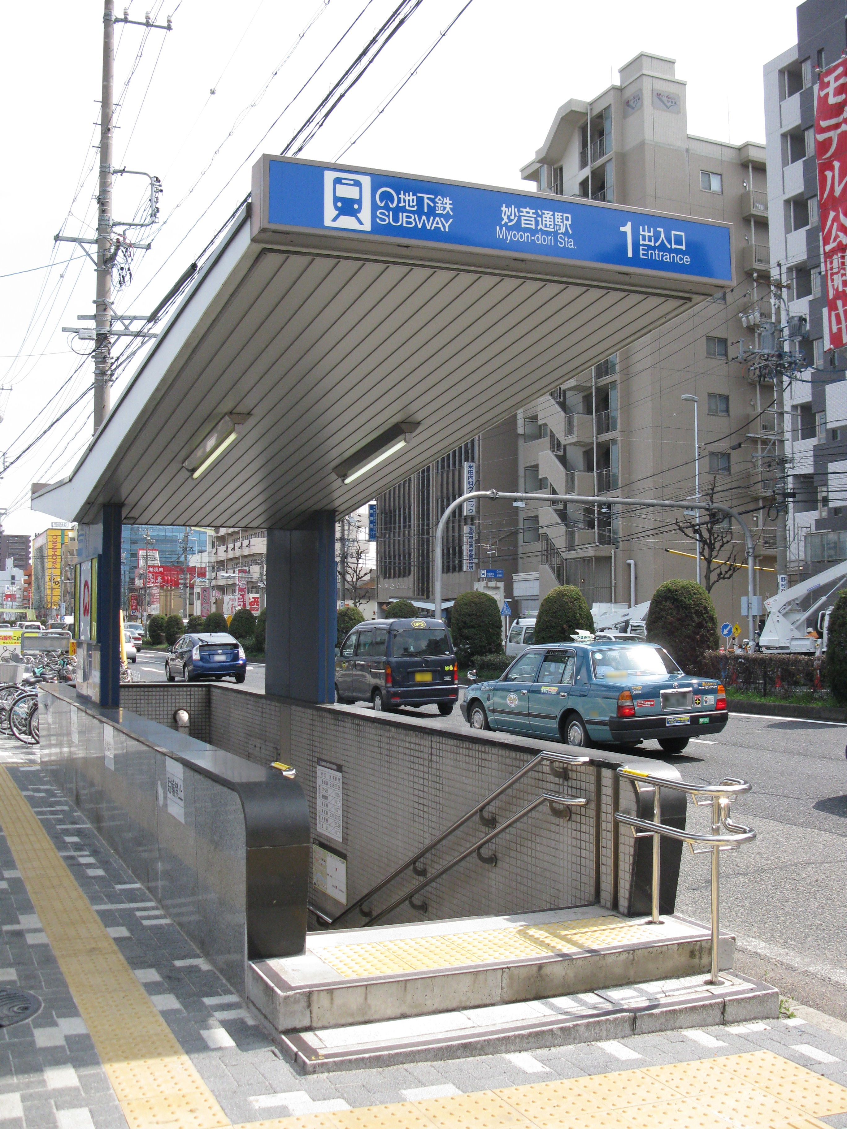 Myōon-dōri Station no.1 entrance (Nagoya Municipal Subway Meijō Line)